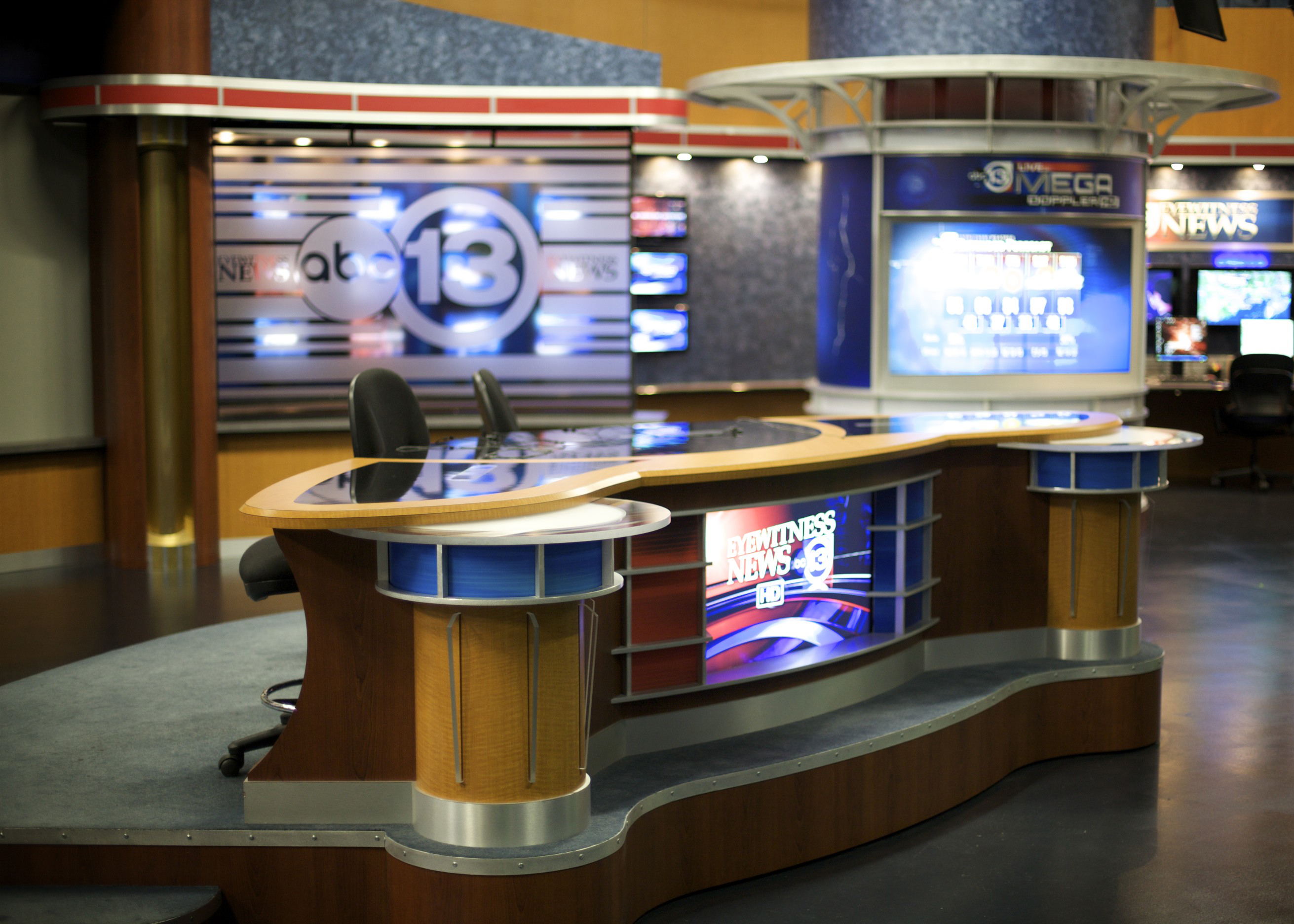 ABC13 news channel studio in December 2009.